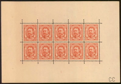 First miniature sheet of the world, Luxembourg, 10 centimes x 10, 1906, Scott #82a